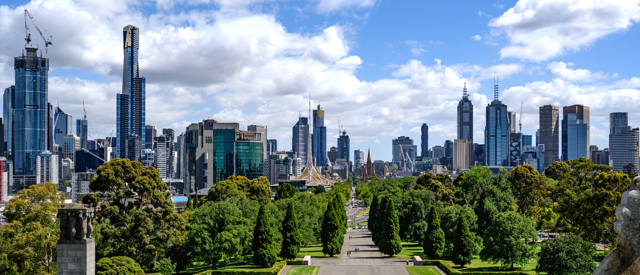 Melbourne City skyline as viewed from the Shrine of Remembrance in January 2019; image has been cropped and brightened (see original in source)